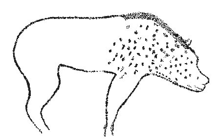 Trace of French cave art possibly depicting a cave hyena. Chauvet Cave, Valon-Pont d’Arc, Ardéche, France.